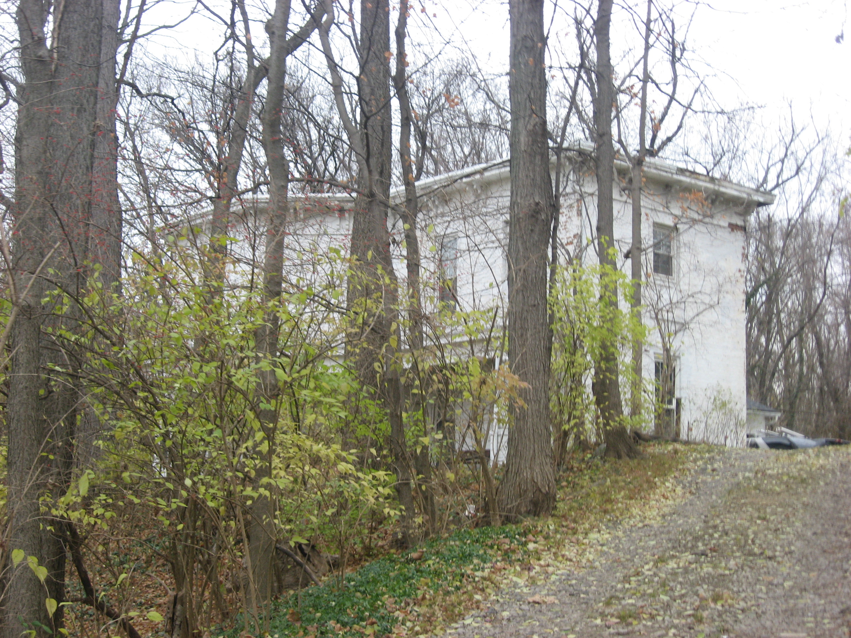 Streetside view of the Charles Butler House, located at 13 E. Jackson Street in Franklin, Ohio, United States. An octagon house built in 1860, it is listed on the National Register of Historic Places.